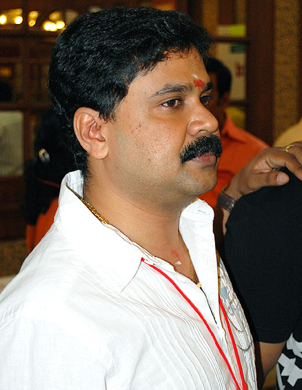 Dileep - From AMMA General body meeting 2008